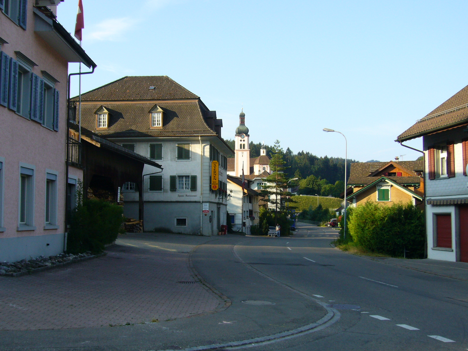 Fischingen, village in the canton of Thurgau, Switzerland. Picture taken by Peter Berger, July 23, 2006.